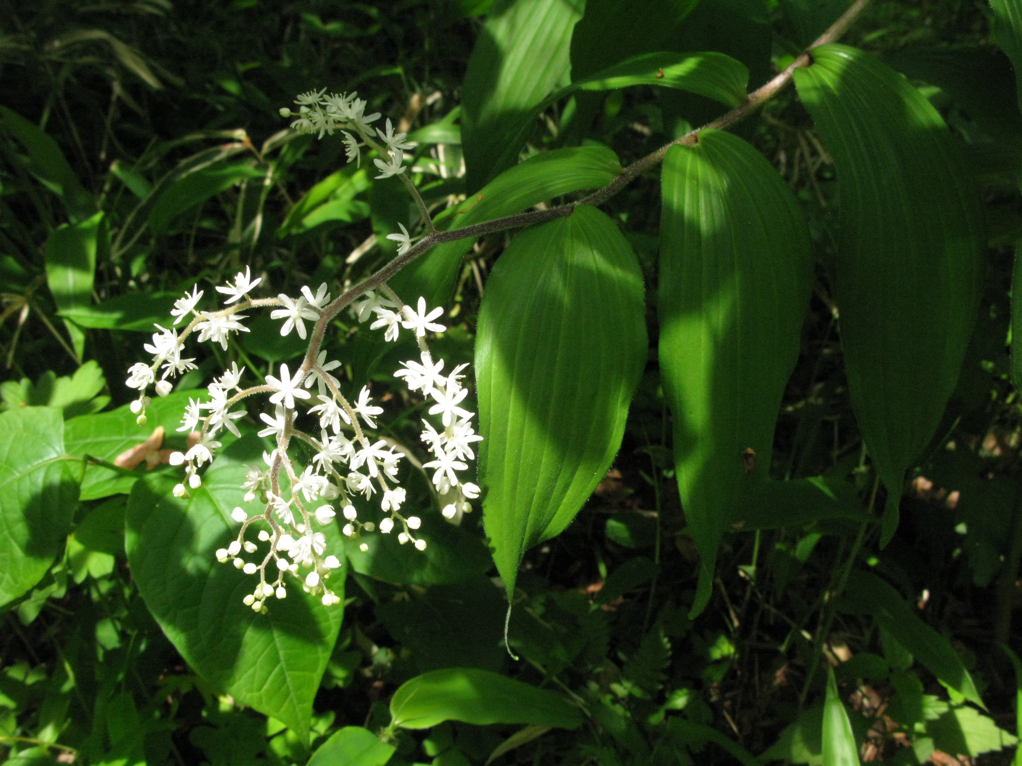 Maianthemum robustum, Nikko Botanical Garden, Tochigi pref., Japan